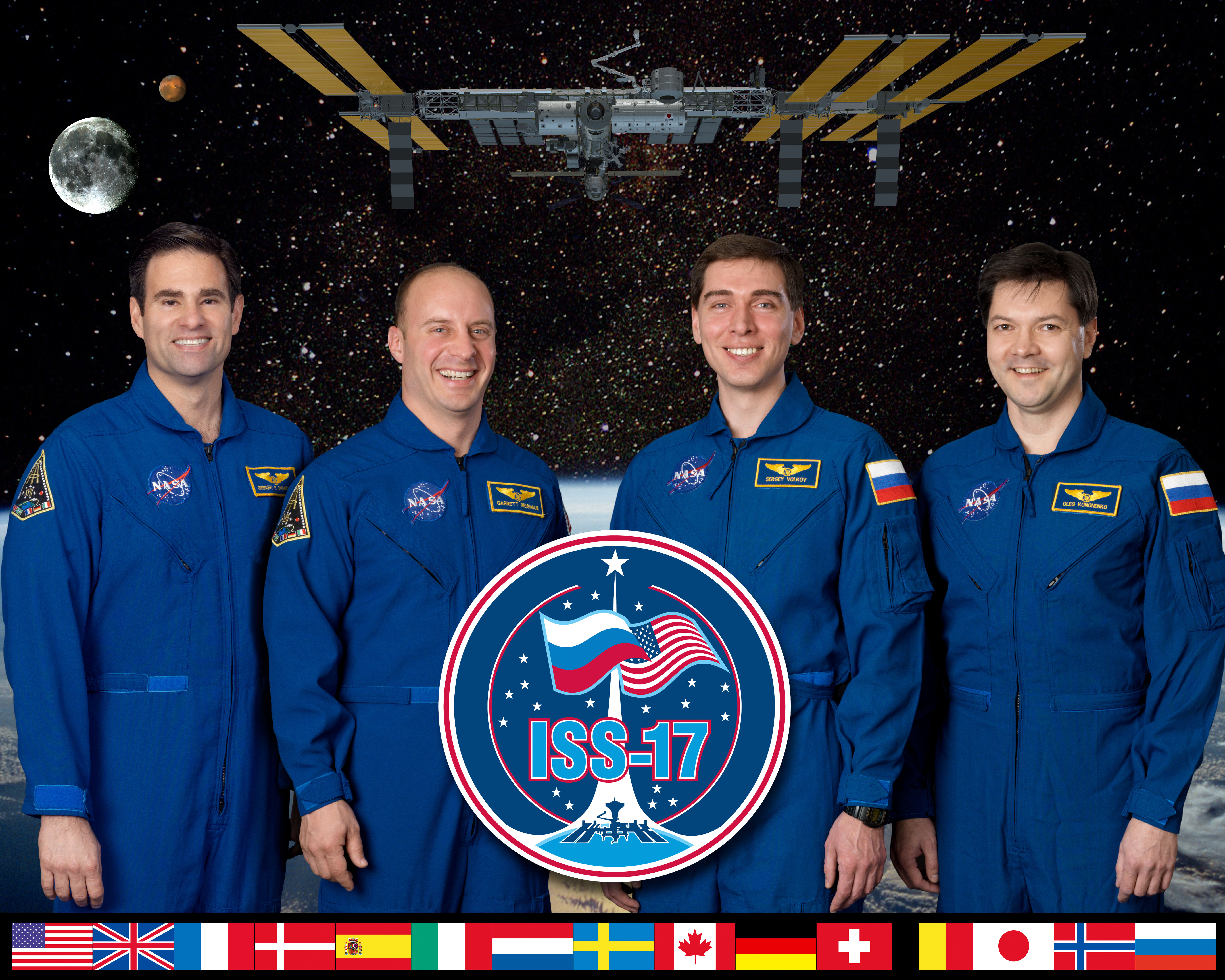 NASA astronauts Greg Chamitoff (left), Garrett Reisman, both Expedition 17 flight engineers; Russian Federal Space Agency cosmonauts Sergei Volkov, commander; and Oleg Kononenko, flight engineer, take a break from training at NASA's Johnson Space Center to pose for a portrait. Reisman will launch to the International Space Station on the STS-123 mission of Endeavour in March 2008, joining Expedition 16 in progress and will provide Expedition 17 with an experienced flight engineer for the first part of its increment. Volkov and Kononenko are scheduled to launch to the complex in the Soyuz TMA-12 spacecraft from the Baikonur Cosmodrome in Kazakhstan in April for a six-month mission. Chamitoff is scheduled to launch to the station on the STS-124 mission of Discovery in June, joining Expedition 17 in progress.